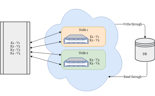 Excample of using IMDG